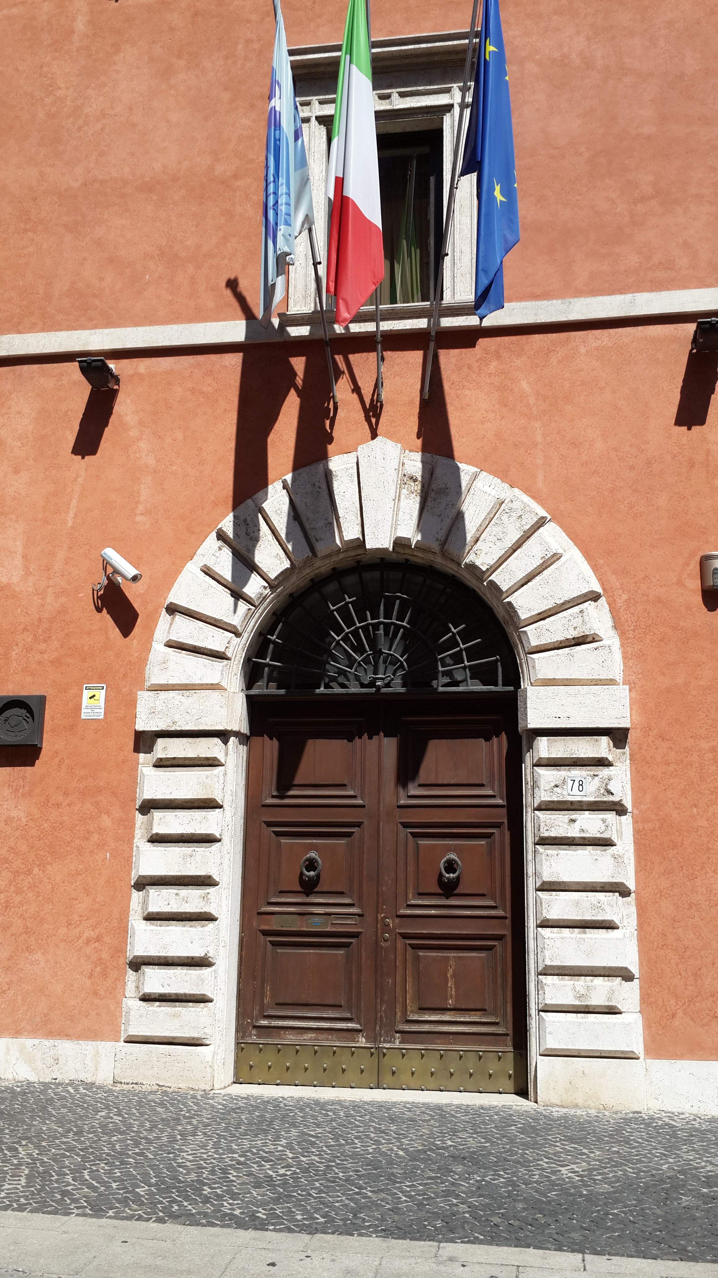 Portal of Palazzo Alicorni in Rome